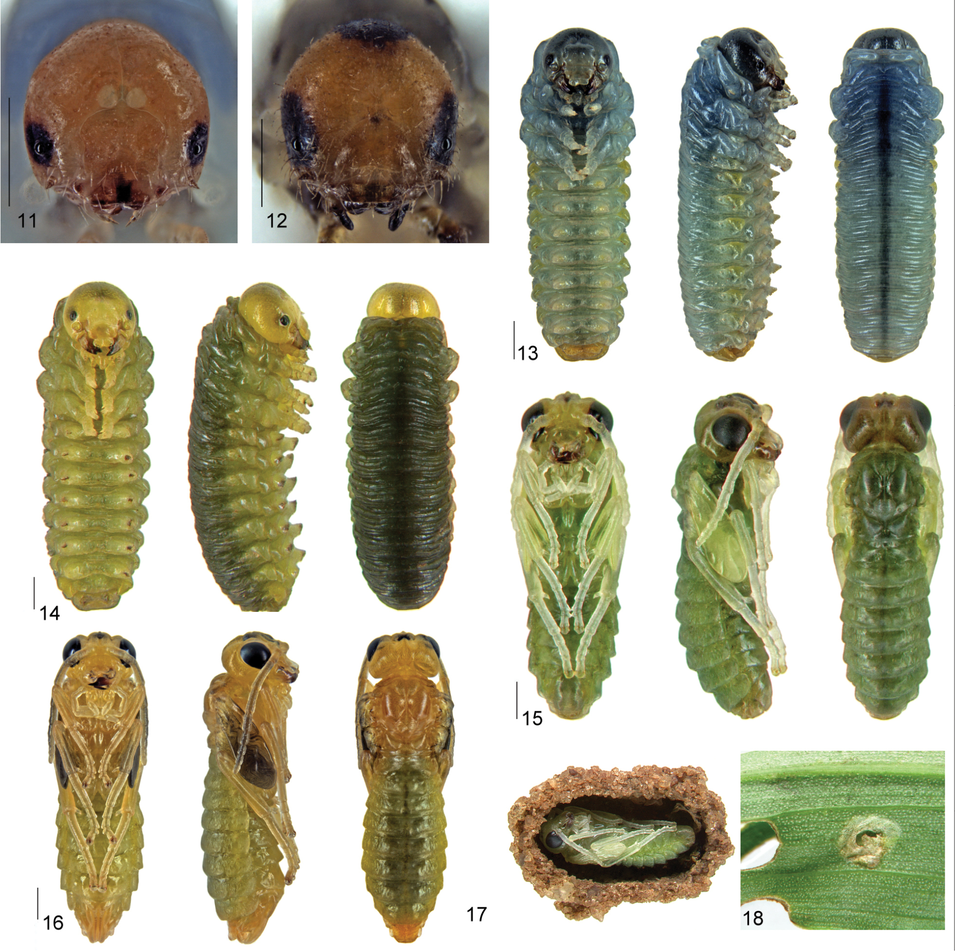 Xenapates immature stages: Larva; head frontal. 11. X. braunsi 12. X. gaullei. Prepupa; ventral, lateral and dorsal (from left). 13. X. braunsi 14. X. gaullei. Pupa; ventral, lateral and dorsal (from left). 15. X. braunsi 16. X. gaullei. 17. X. braunsi: cocoon containing pupa. 18. Vacated egg pocket of X. gaullei, exuvia of first instar larva visible in perforation, with feeding hole (at left) made by second instar. Scale bars = 1 mm.